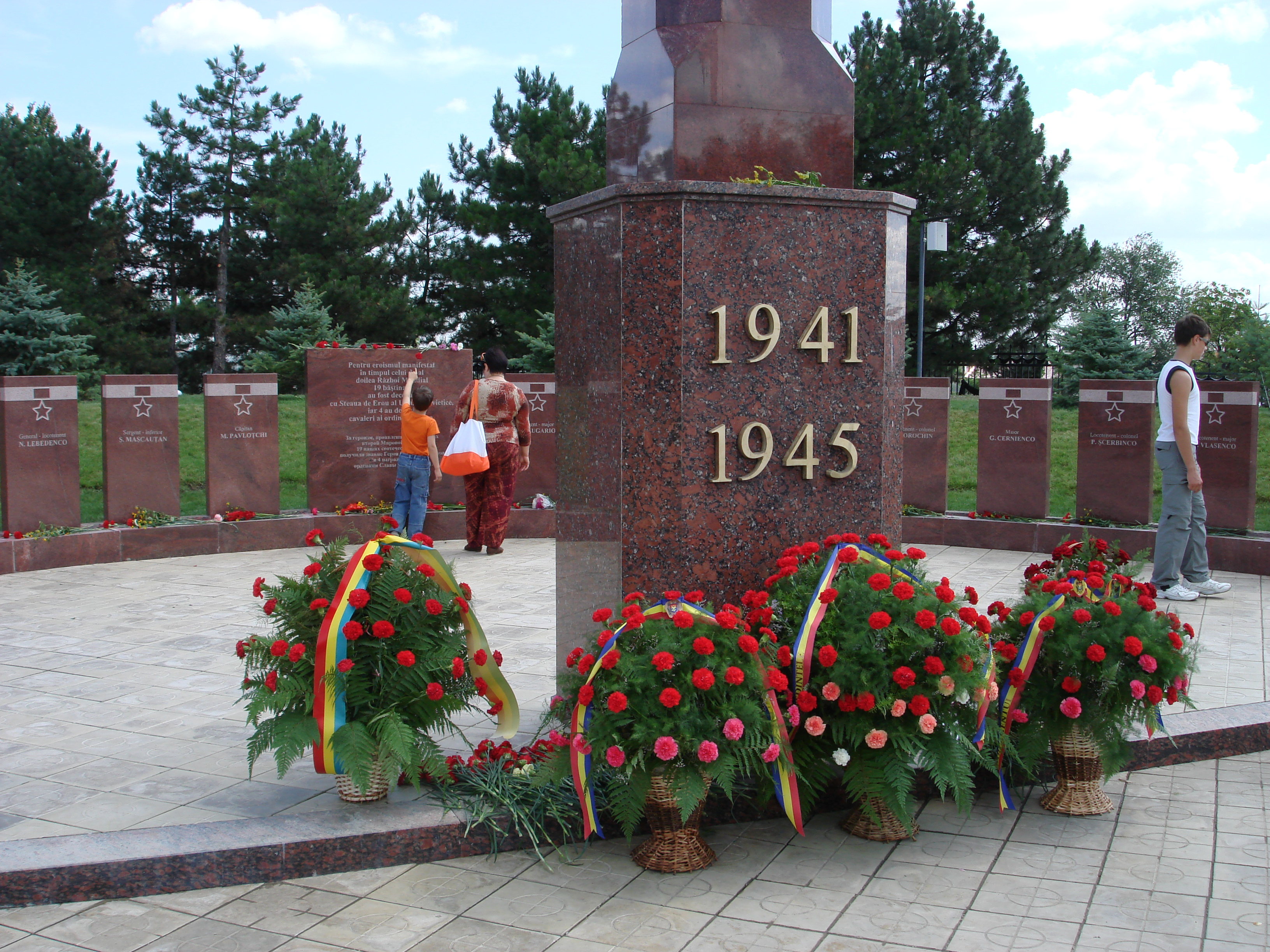 Memorial complex «Eternitate»